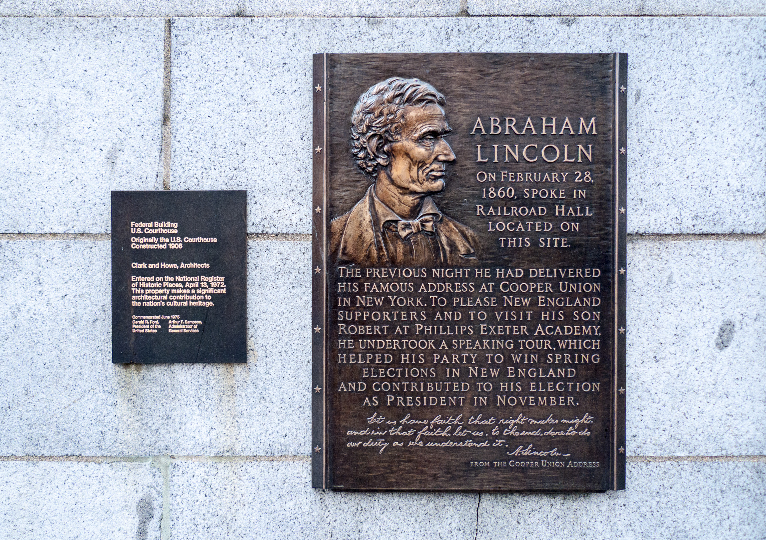 Plaques on the Federal Building, Providence Rhode Island Left: Federal Building US Courthouse Originally the U.S. Courthouse Constructed 1908 Clark and Howe, architects Entered on the National Register of Historic Places, April 13, 1972. This property makes a significant architectural contribution the the nation's cultural heritage. Commemorated June 1975 Gerald R. Ford, President of the United States Arthur F. Sampson, Administrator of General Services Right: Abraham Lincoln On February 28, 1860, spoke in Railroad Hall located on this site. The previous night he had delivered his famous address at Cooper Union in New York. To please New England supporters and to visit his son Robert at Phillips Exeter Academy, he undertook a speaking tour, which helped his party to win Spring election in New England and contributed to his election as President in November.